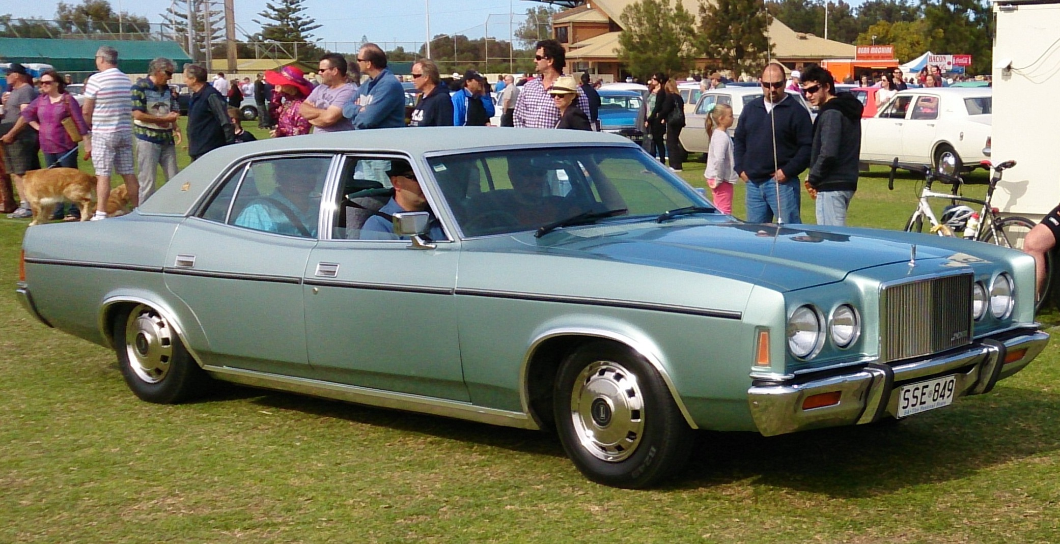 Ford LTD (P6). Built by Ford Australia from 1976 to 1979.